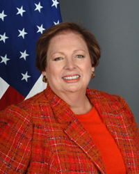 Mari Carmen Aponte, U.S. diplomat. As of 2010, U.S. Ambassador to El Salvador